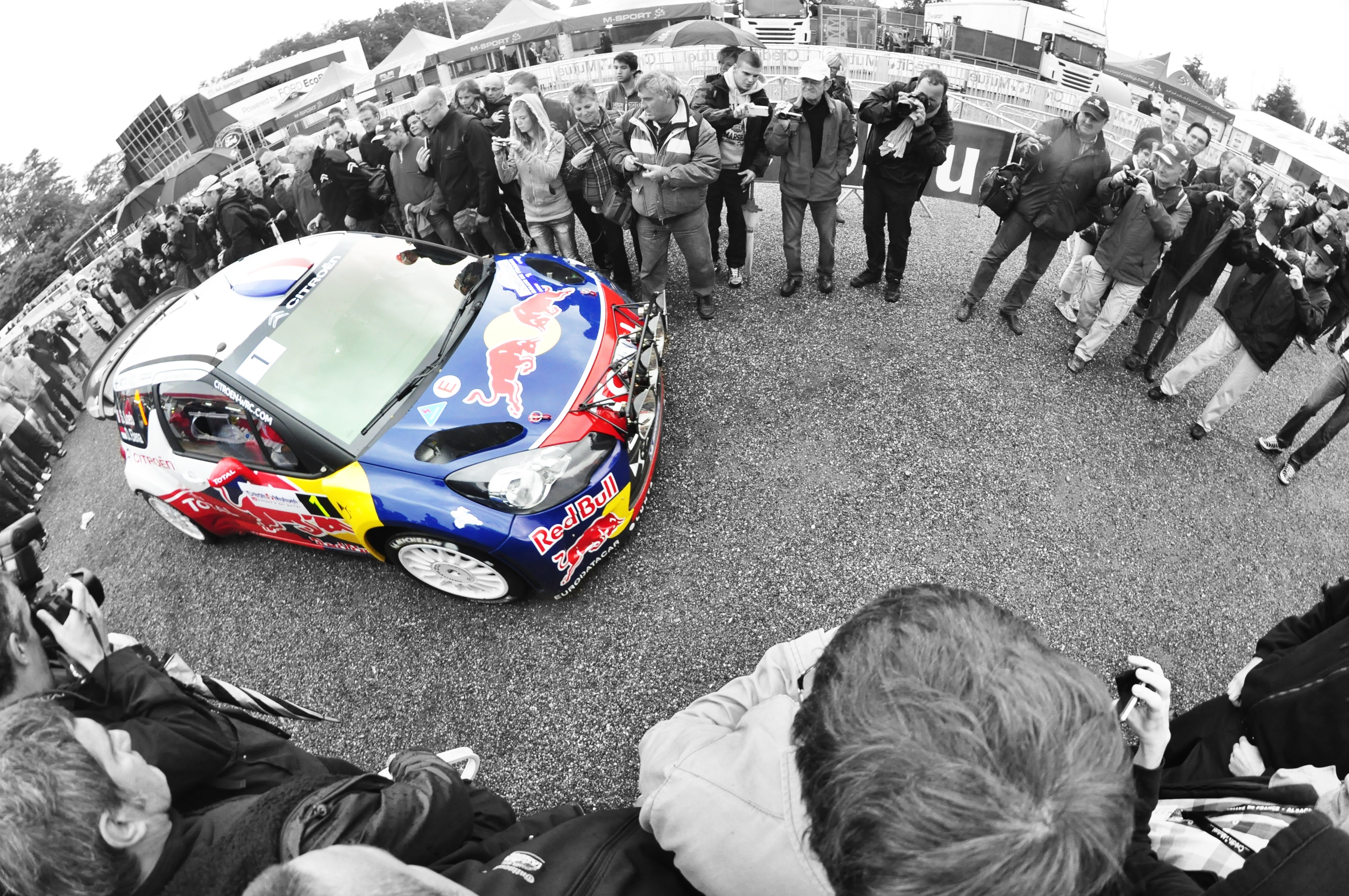 Citroën DS3 WRC #1; Sebastien Loeb & Daniel Elena